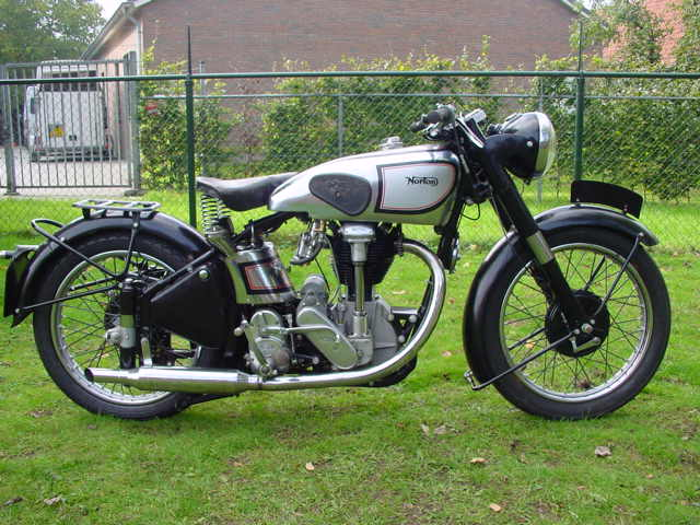 Norton International 490cc from 1949